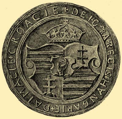 The gold-seal of John Szapolyai